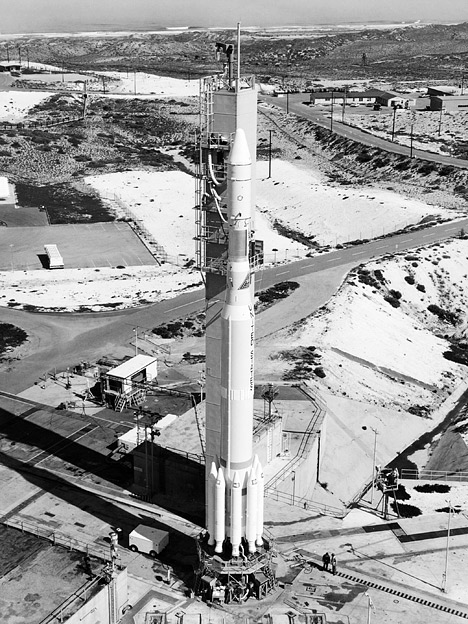 ERTS-A was launched July 23, 1972, on a Delta 0900 from Vandenberg Air Force Base. The satellite was renamed ERTS-1 when it achieved orbit. NASA announced the name change to Landsat 1 on January 14, 1975.